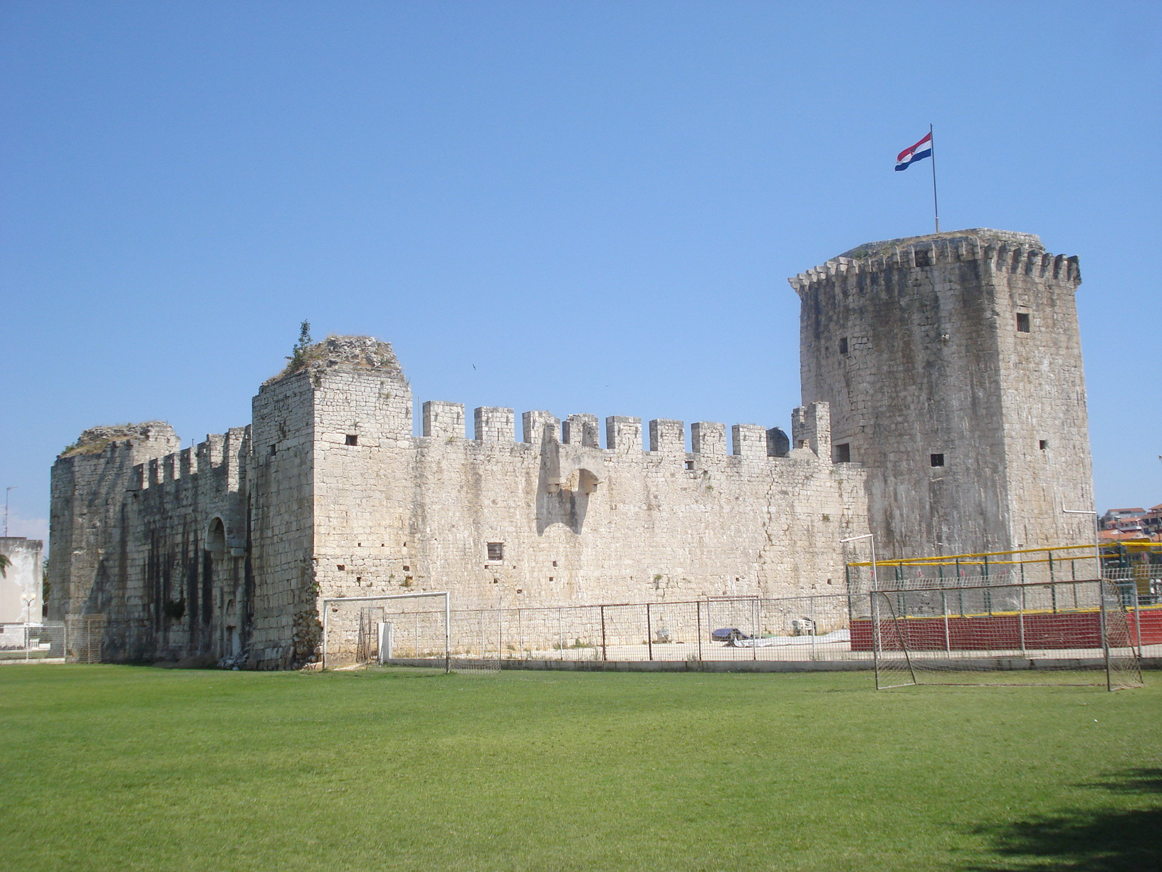 Kamerlengo fortress in Trogir, Croatia - northwest view